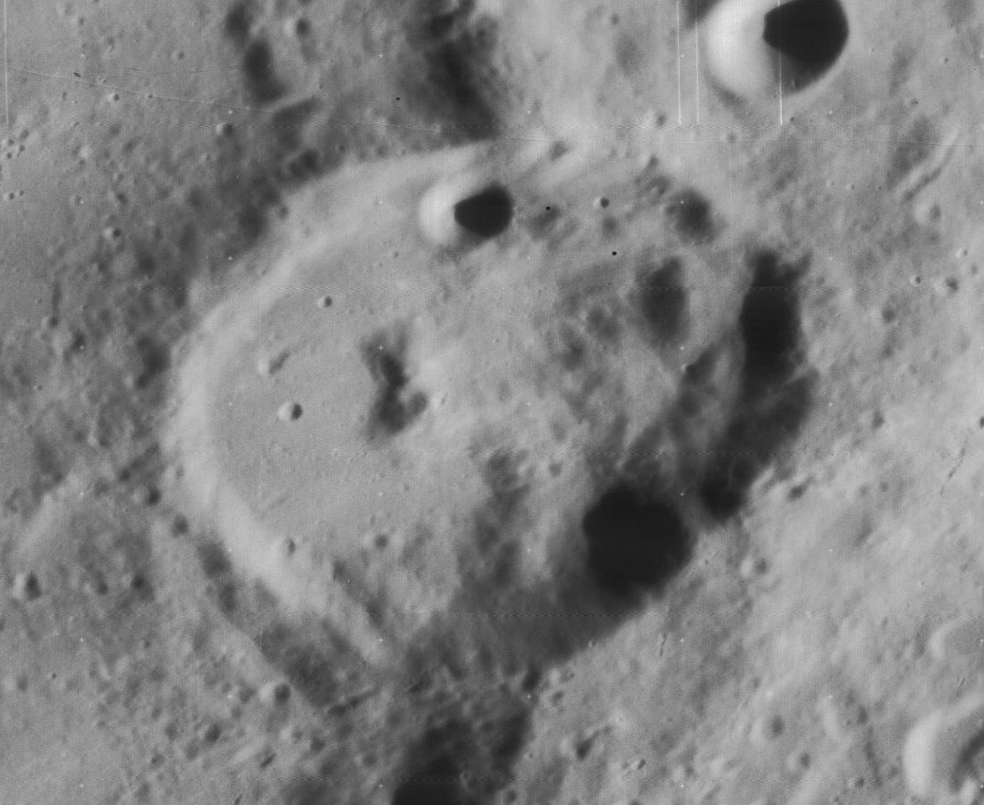 Slightly oblique view of Porter, on the moon. North is to upper right.